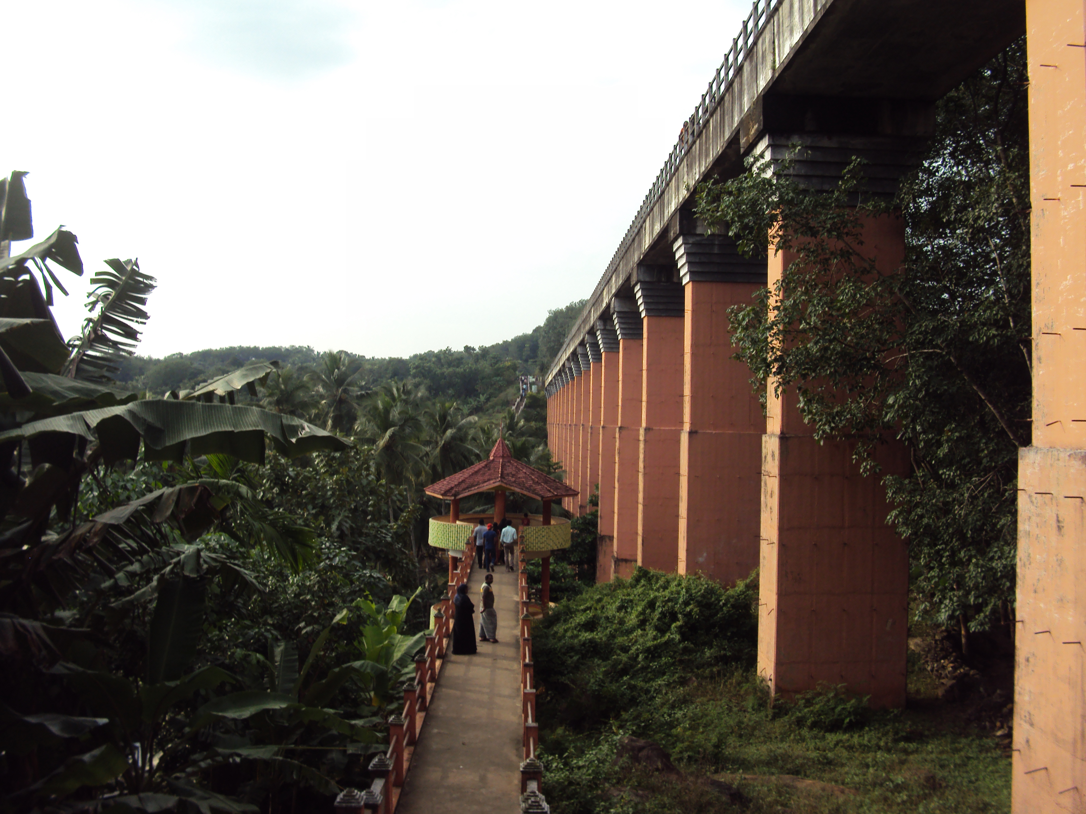 Mathur Hanging Trough,Mathur Aqueduct